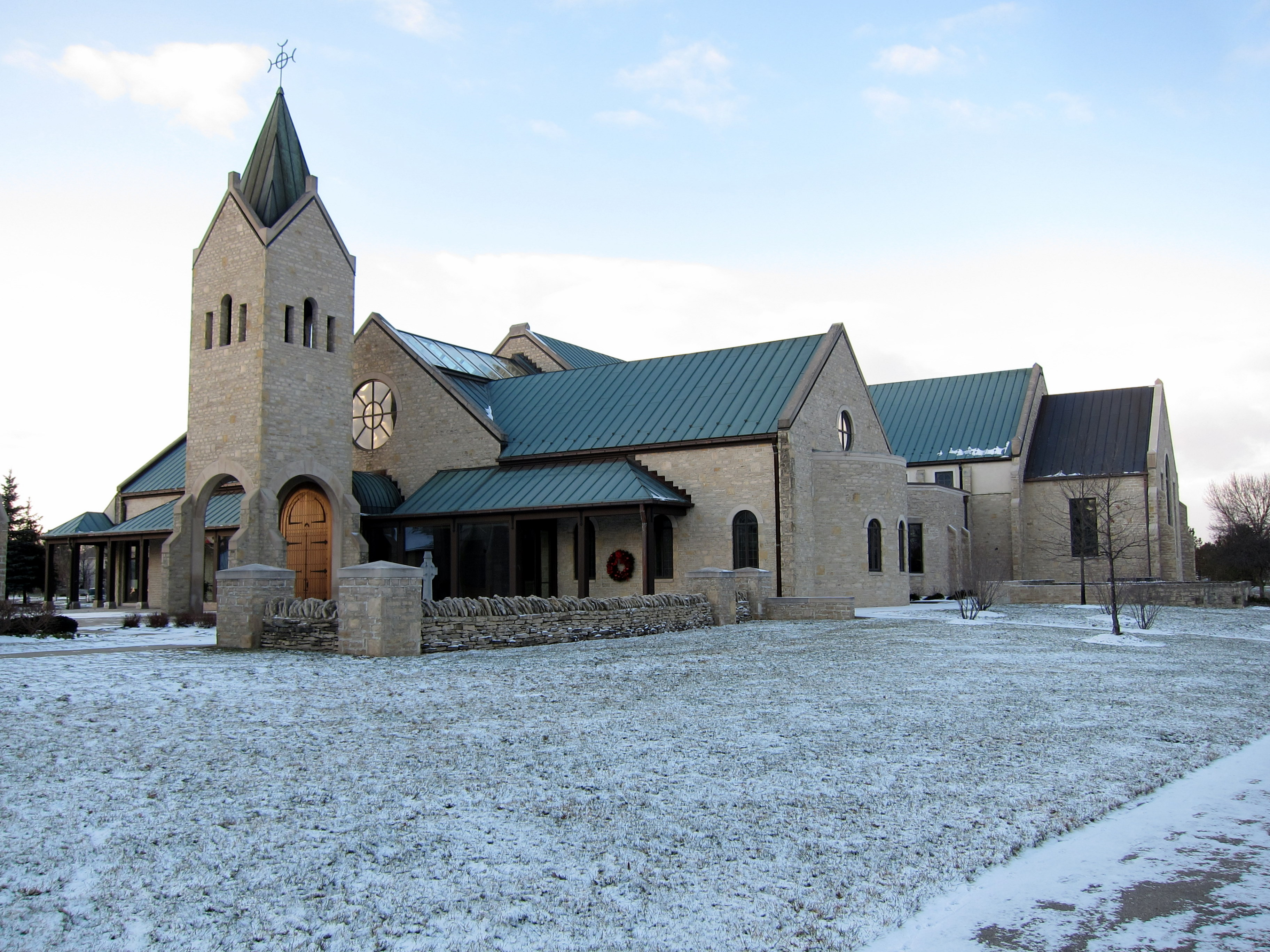 St. Brigid of Kildare Parish (Dublin, Ohio), exterior